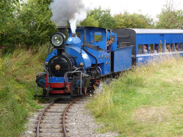 Beeches Light Railway. Darjeeling Himalayan Railway locomotive No. 19 is descending and the safety valves have lifted. The engine is fired and driven hard to cope with the steep banks at this site and was often seen blowing off when the throttle was closed.